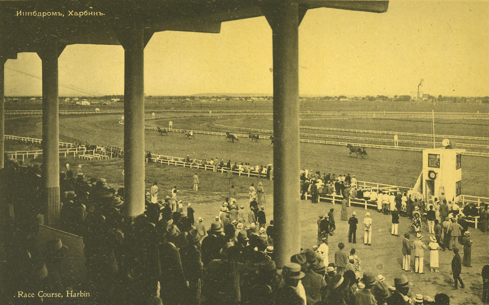 Race Course of Harbin 1932